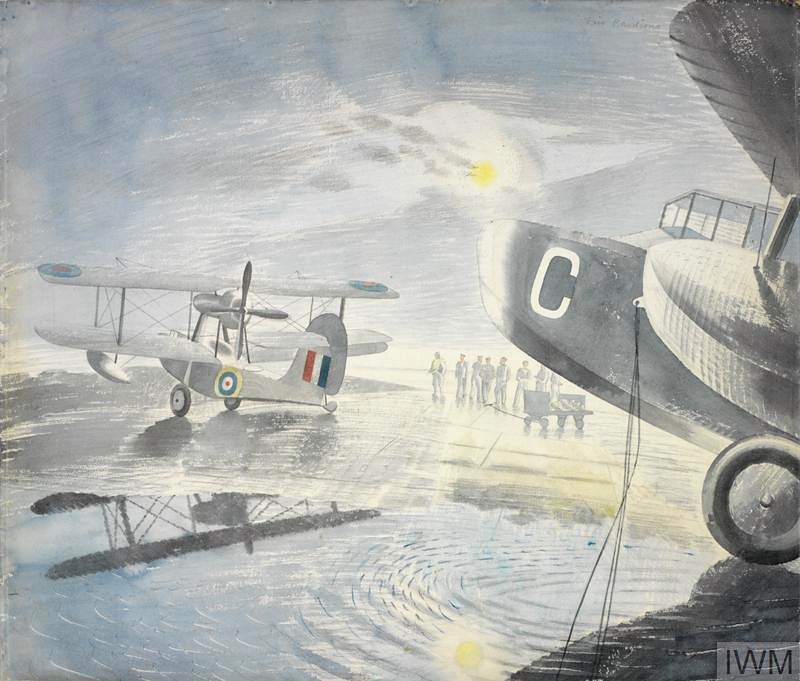 Two Walrus aircraft, one only partily visable, sit on the runway with some personnel in the background.